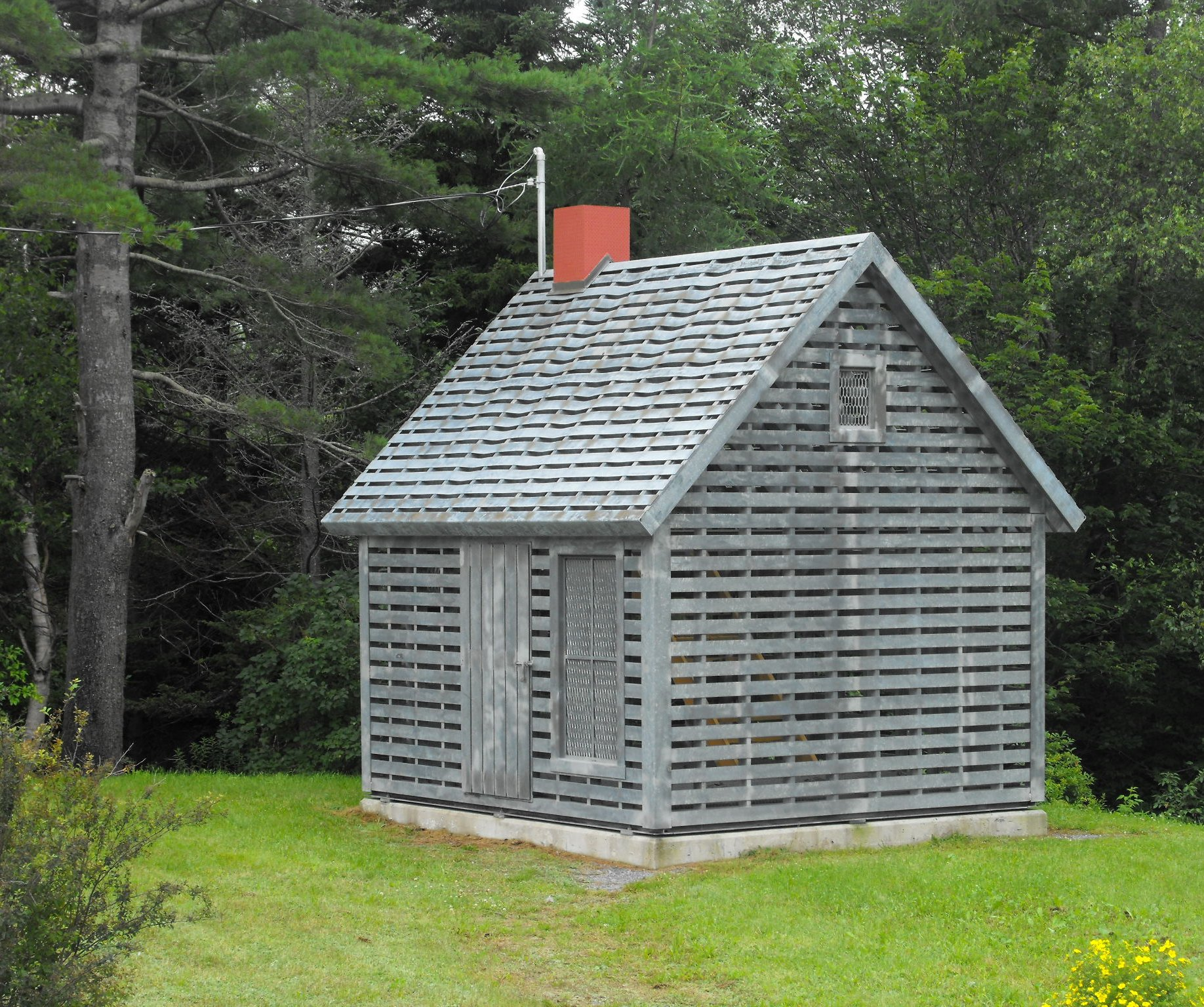 Maude Lewis memorial, Marshalltown, Digby County, Nova Scotia. This tiny structure, made of galvanized metal, is the same size as the artist Maude Lewis' actual home.